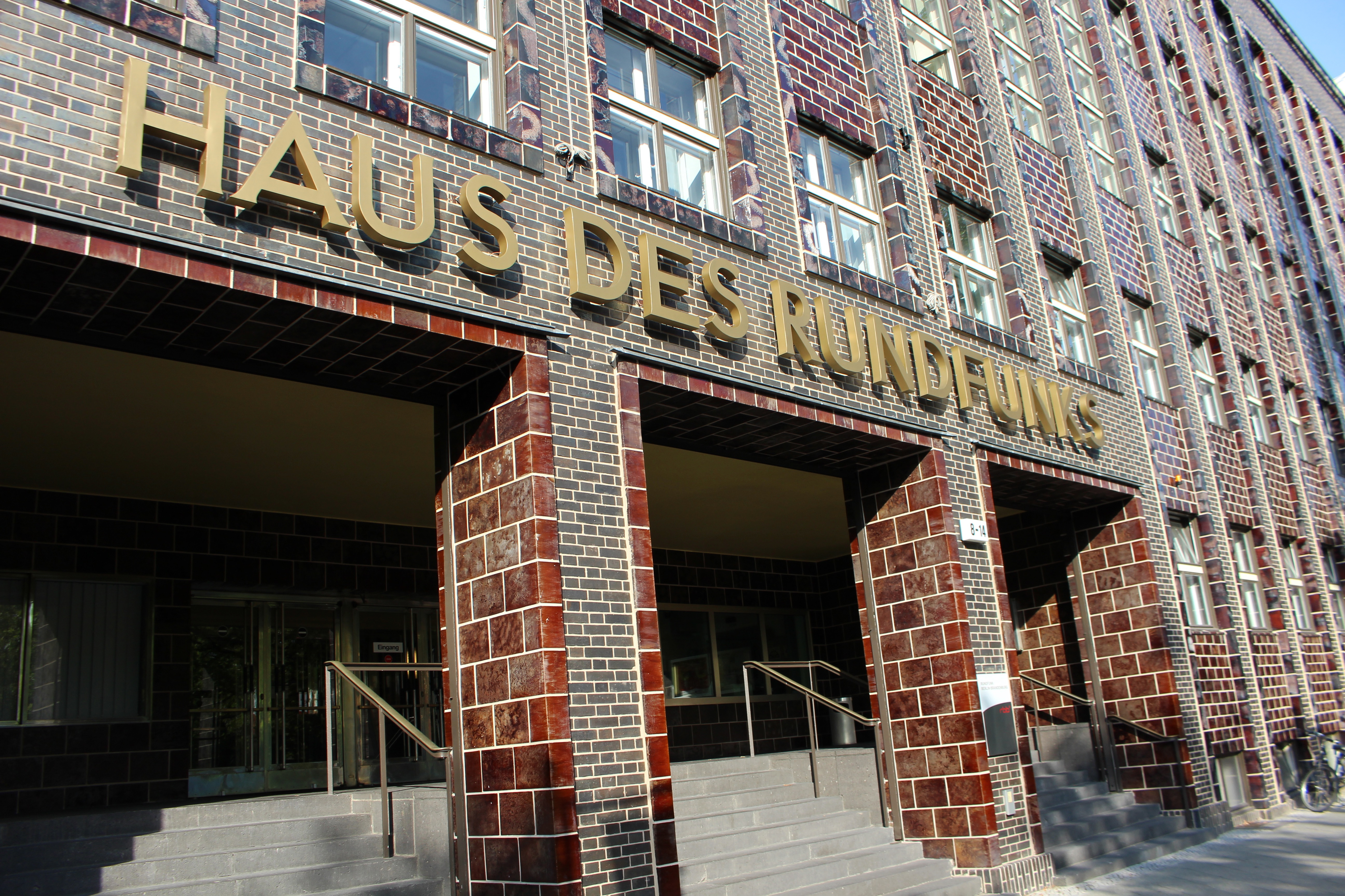 Haus des Rundfunks in Summer 2015